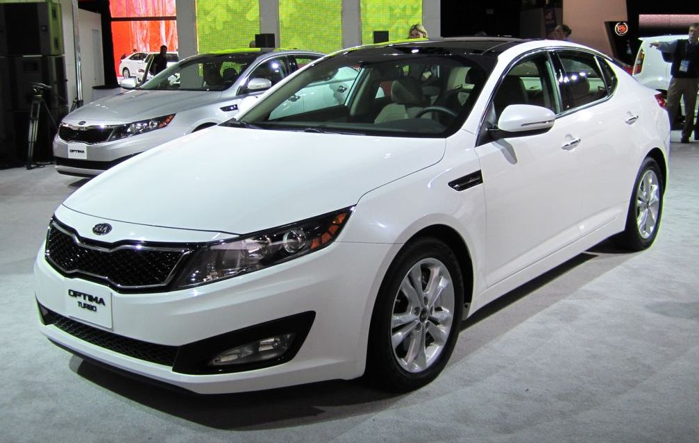 2011 Kia Optima Turbo at the 2011 NAIAS.